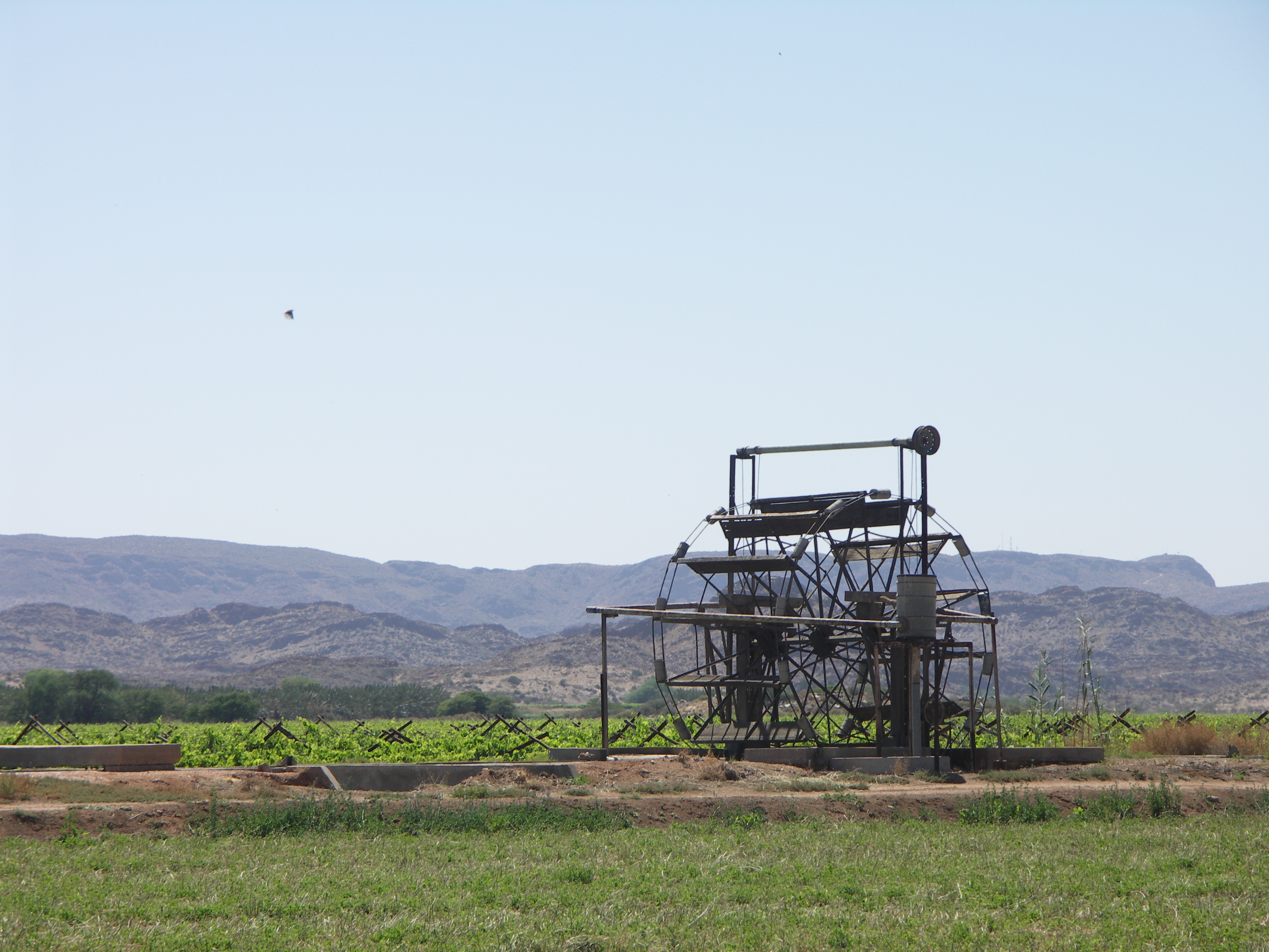 A waterwheel in Kakamas, Northern Cape, South Africa. The waterwheel is situated in an irrigation canal fed from the Orange River to supply water to the vineyards in the background.